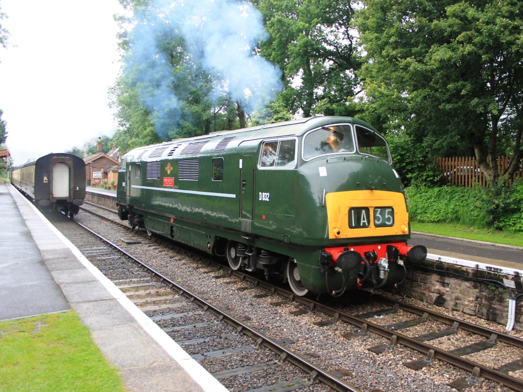 Preserved British Rail Class 42 D832 Onslaught at Crowcombe Heathefield on the West Somerset Railway. It is on its way from its depot at Williton to pick up a train at Bishops Lydeard.